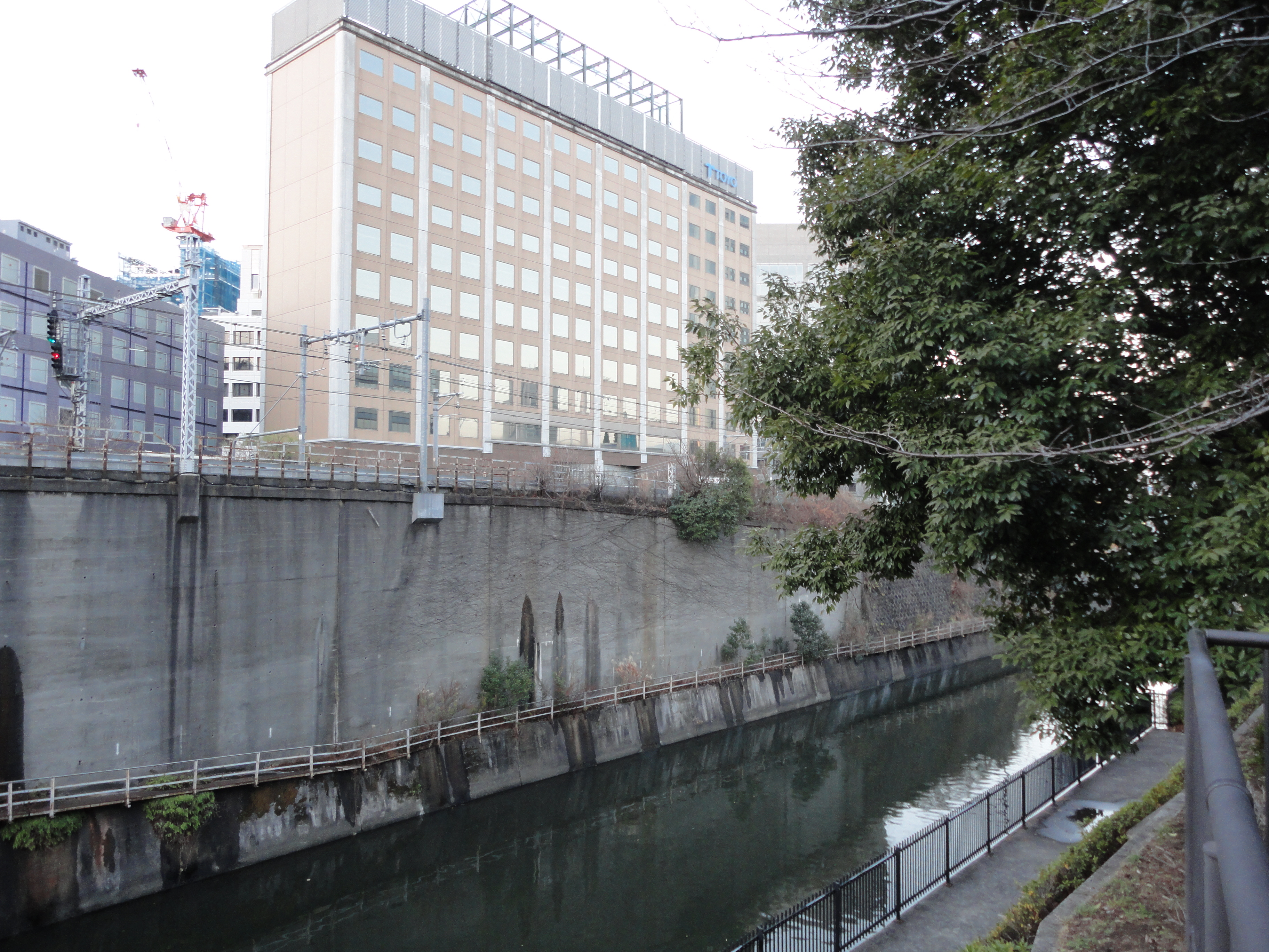 Site of Kanda Waterworks Aqueduct (kakehi) in Bunkyo Ward, Tokyo, Japan